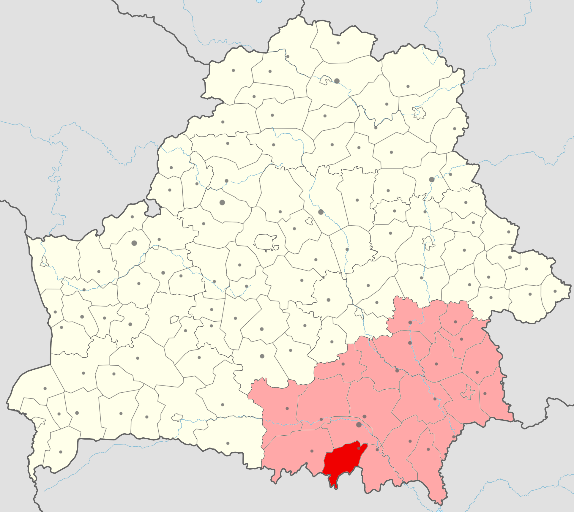 Location of Jeĺski rajon (red) in Homieĺskaja voblasć (light red) in Belarus.